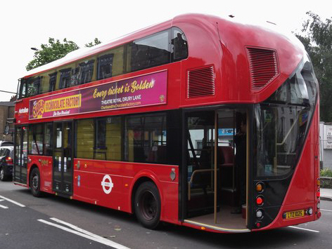 Boris bus, Hawley Road NW1